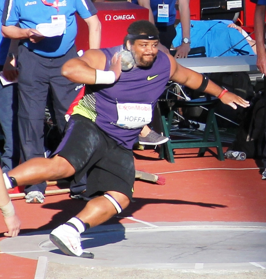 Reese in action during Bislett Games 2010 - cropped